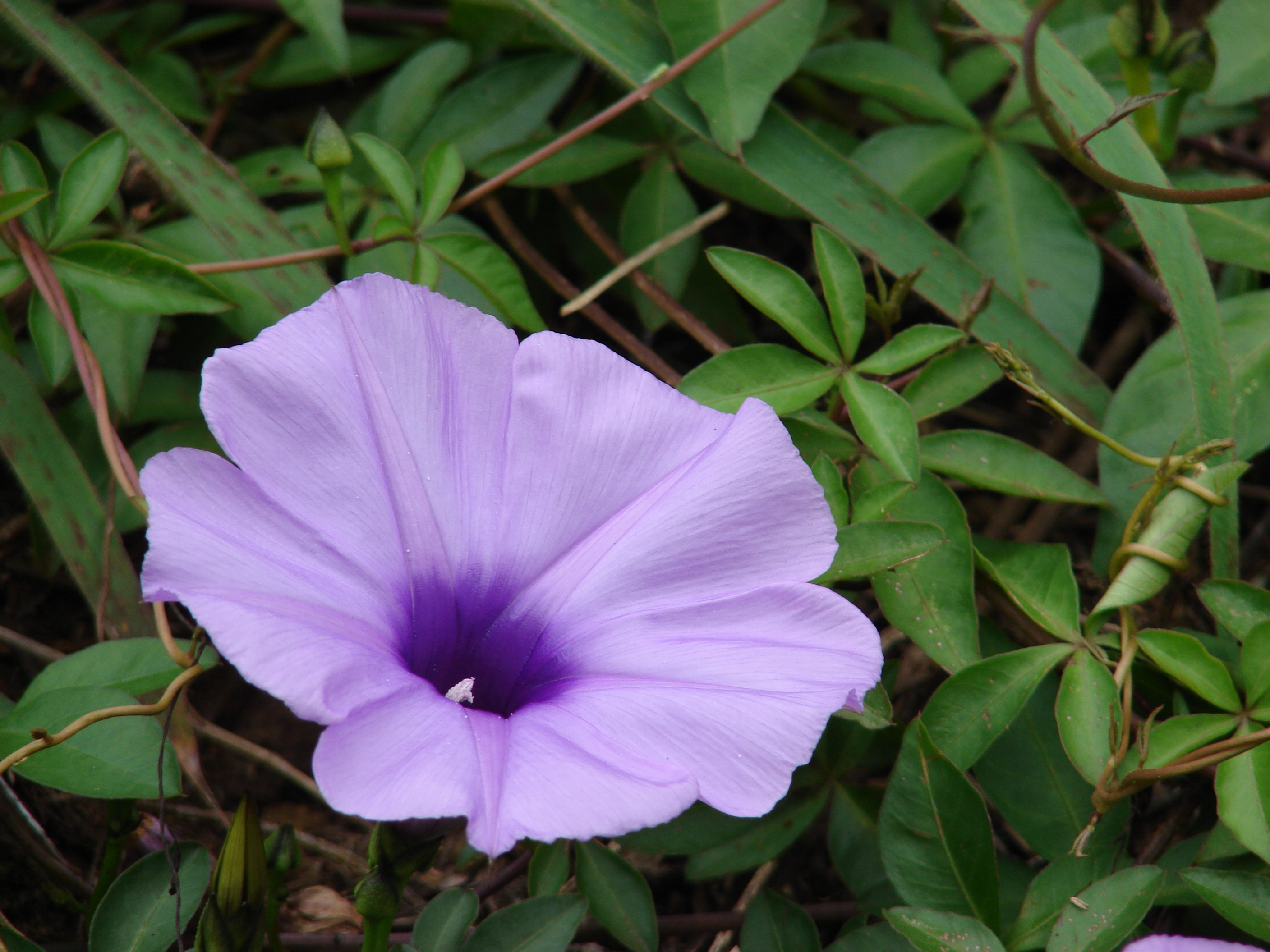 Ipomoea cairica (flower and leaves). Location: Maui, Kula